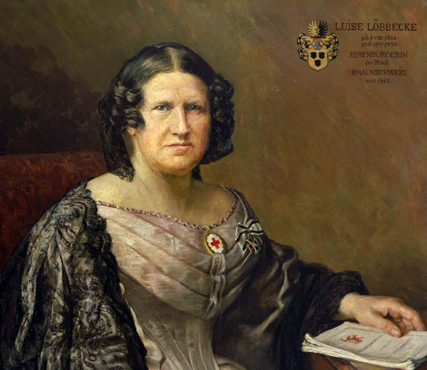 Luise Löbbecke, Honorary citizens of Braunschweig since 1862